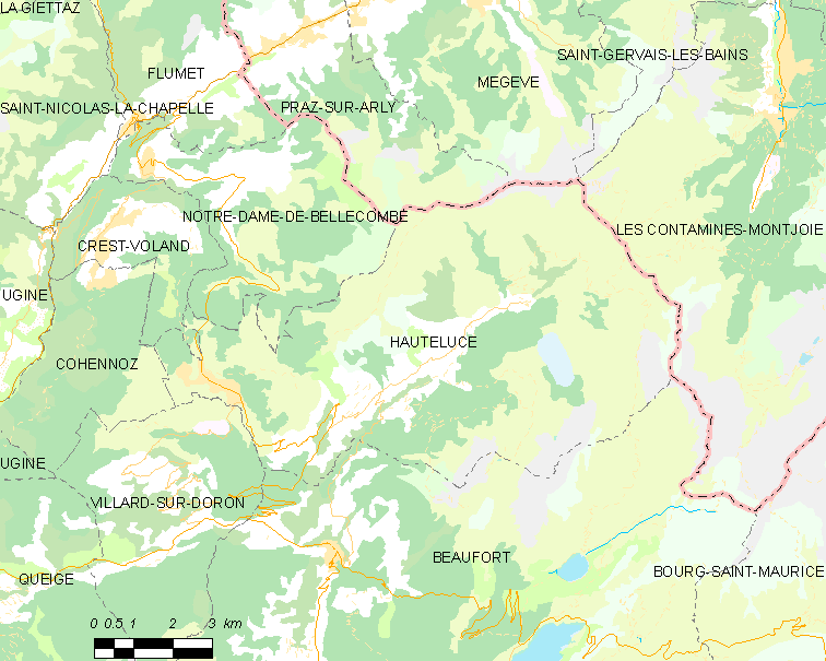 Map of French municipality